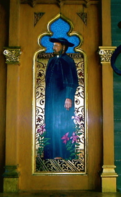 author, myself.